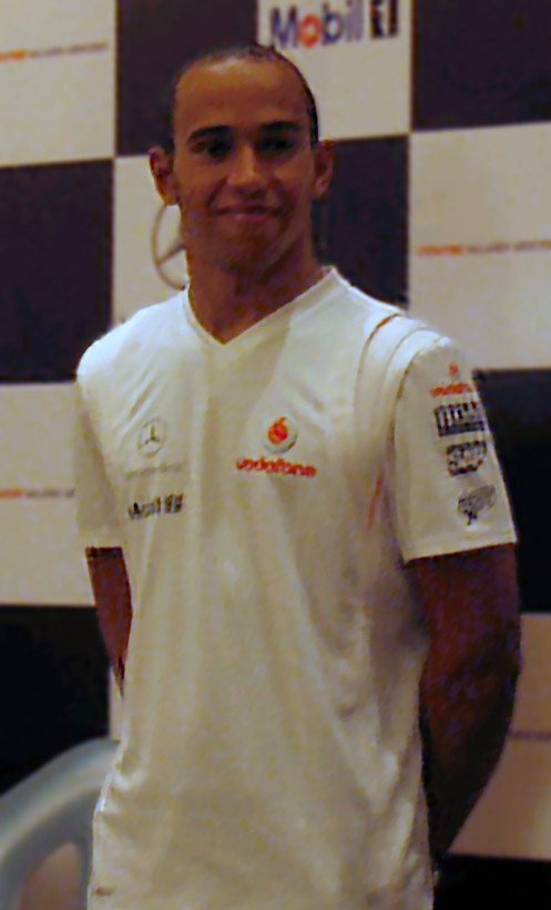 Lewis Hamilton at a media event in early 2007.